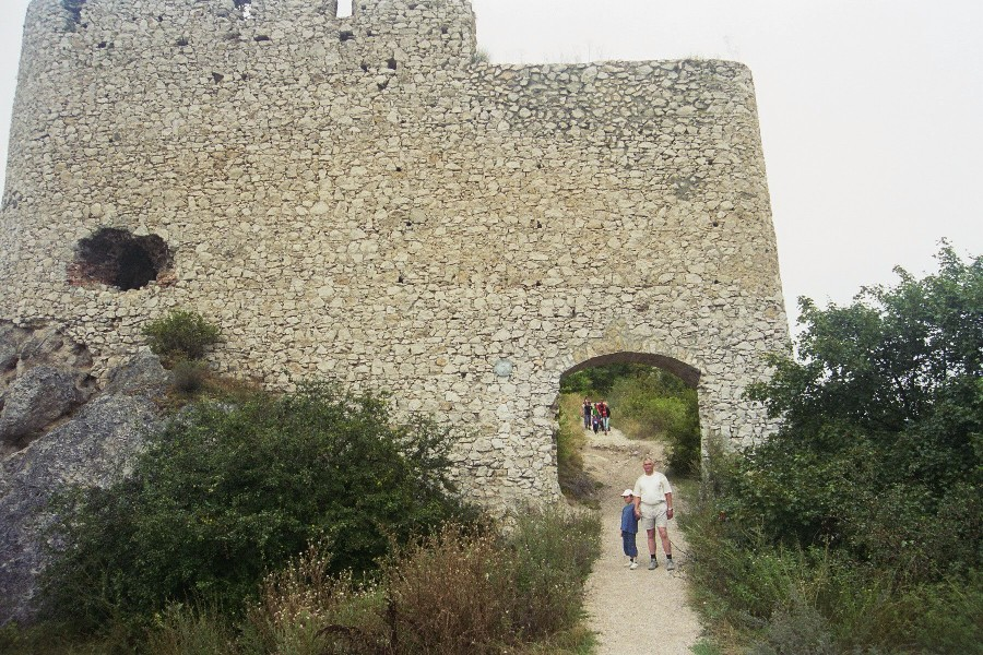 Ruins of Čachtický hrad, Western Slovakia